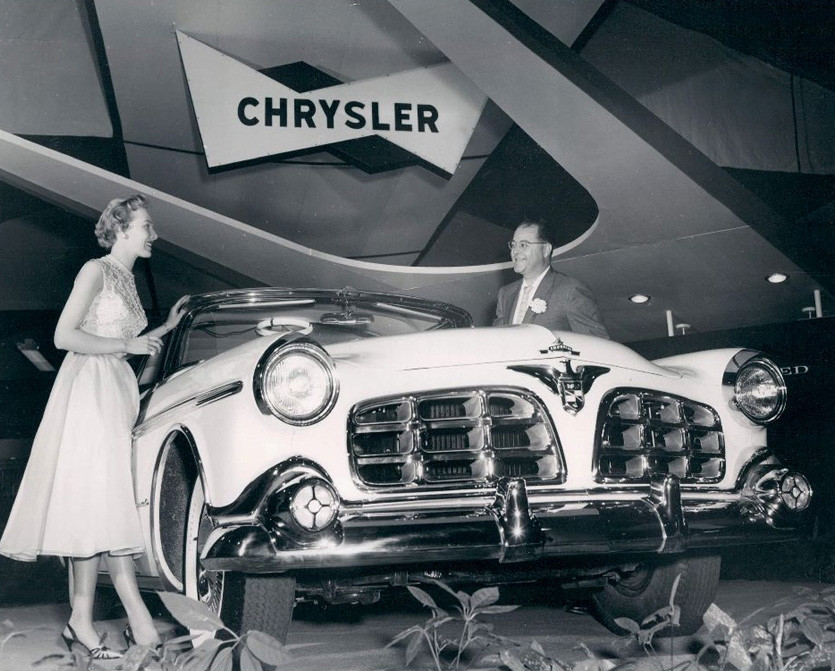 I scanned my original press photo of a 1955 Chrysler Imperial car shown at the 1955 Jan. Chicago Auto Show. I own this original press photo and had won this item on ebay item #280712283857. This scanned image is for the educational purposes only, and for the history of Chrysler. I also used Adobe Photoshop to correct minor flaws and imperfections that were present in original 1955 press photo, and enhance overall picture quality